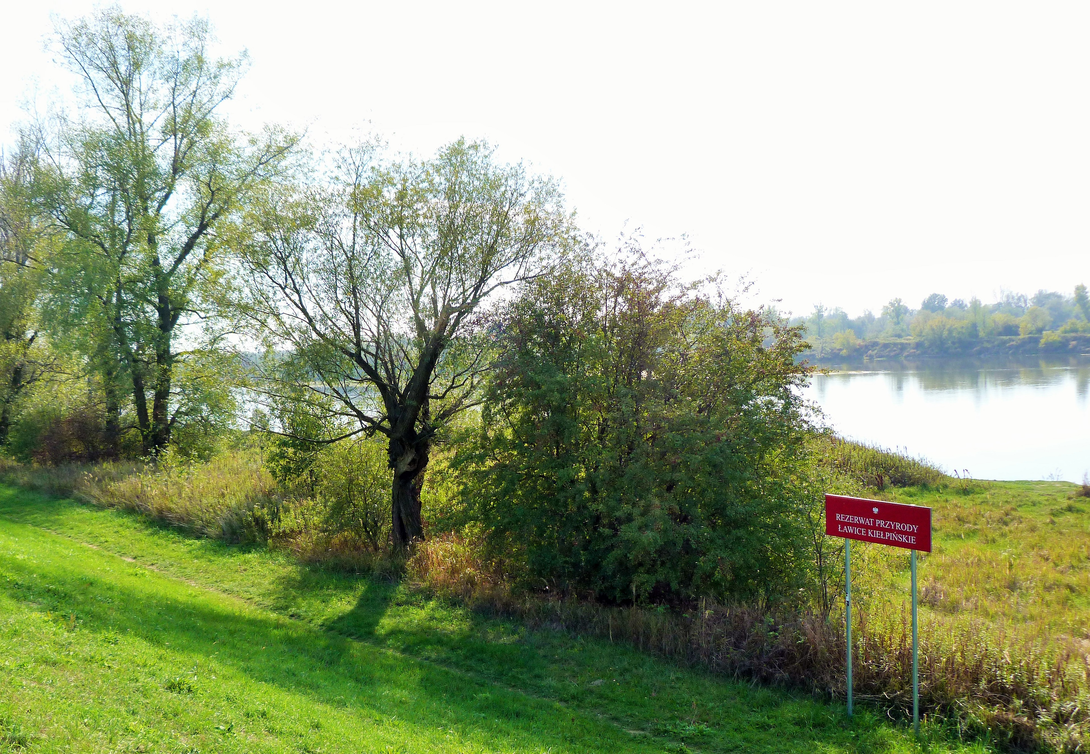 Ławice Kiełpińskie Nature Reserve